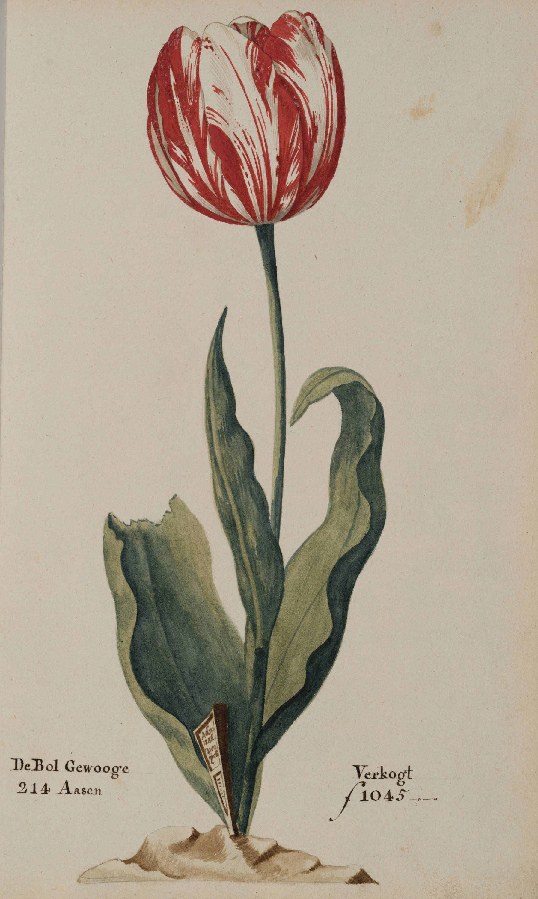 Tulip picture from the catelogue of P.Cos printed in 1637 in the Netherlands.